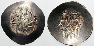 Alexius III Angelus. 1195-1203 AD. EL Aspron Trachy (4.97 g). Constantinople. + KE HQEI, Christ enthroned facing; IC XC at shoulders [ALEZIW ÐECP TW KWCTANTI], Alexius and St. Constantine standing facing, holding labarum between them and each holding cruciform sceptre. DOC V 2a-b; Hendy pl. 22, 4; SB 2009-2010.